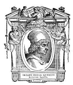 Illustratio from "Le Vite" by Giorgio Vasari, edition of 1568. For the artist portrayed see filename